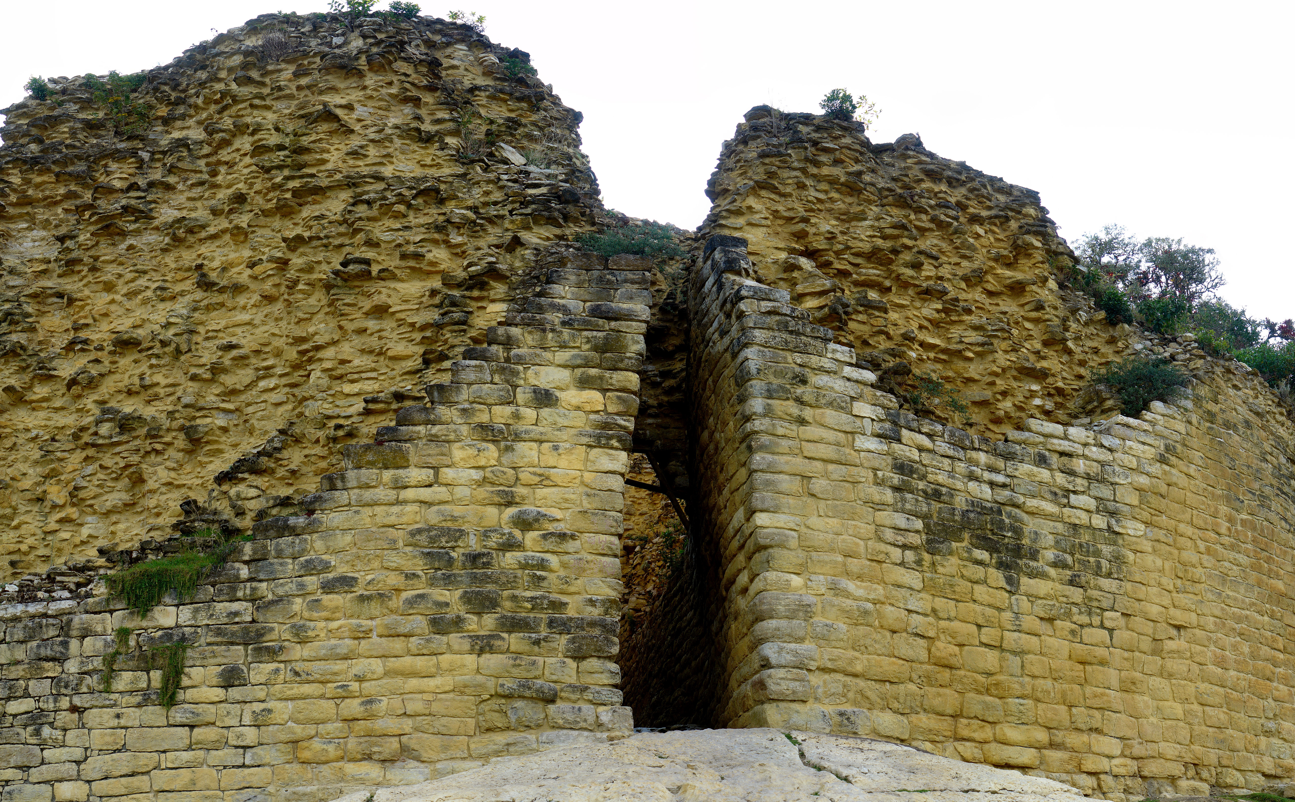 Main entrance of Kuelap forteress, Peru